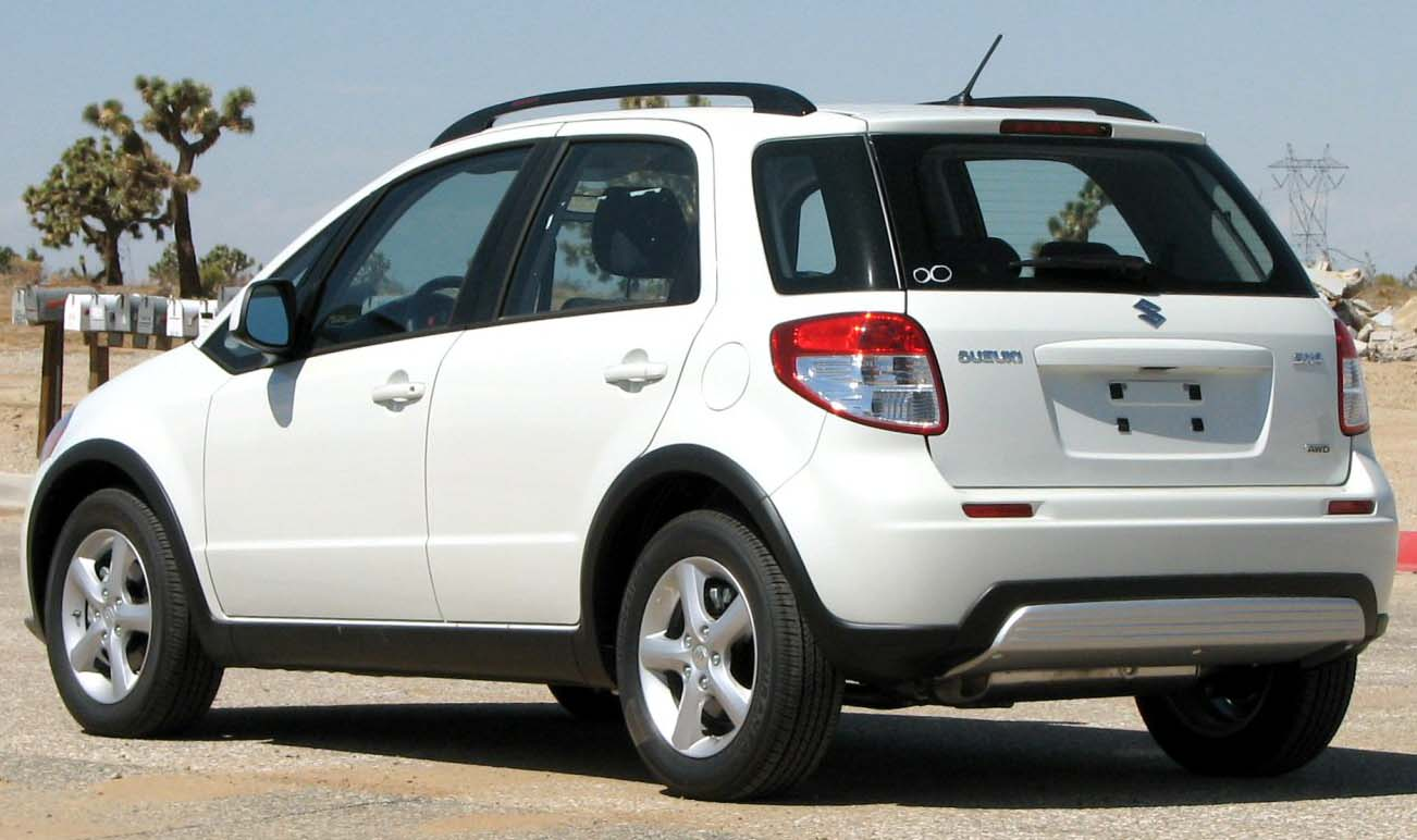 2008 Suzuki SX4 AWD photographed in USA.